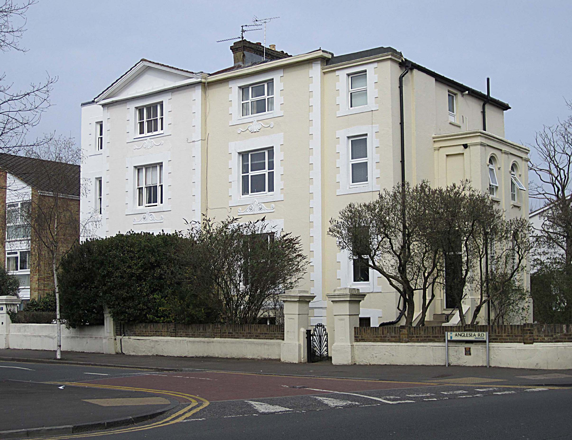 Nos 1 & 2 Anglesea Road Kingston.